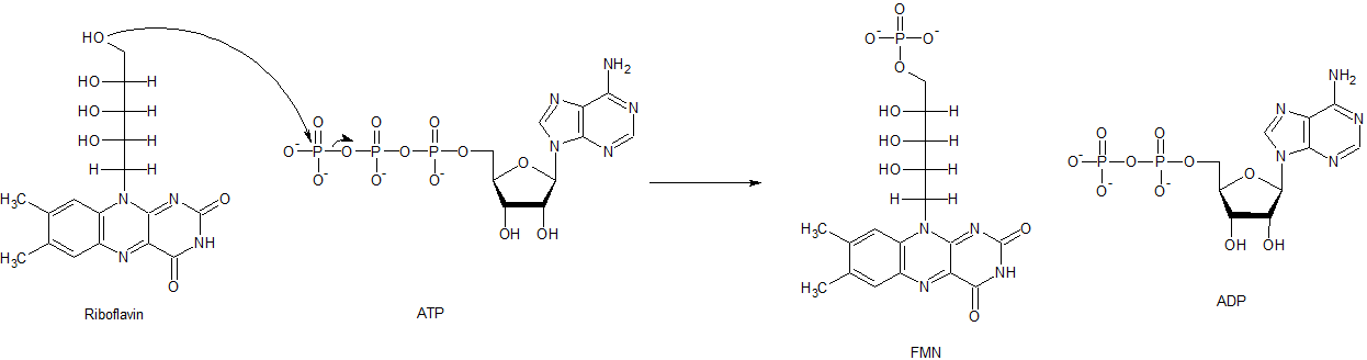 mechanism of riboflavin kinase created with chemsketch